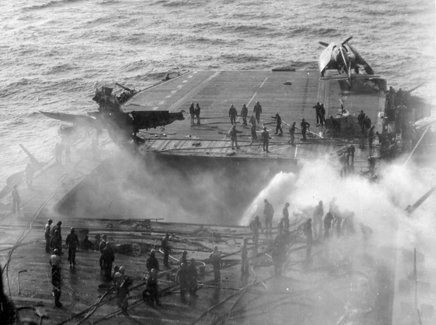 The crew of the U.S. Navy aircraft carrier USS Enterprise (CV-6) fighting fires after a kamikaze hit the forward elevator on 14 May 1945.